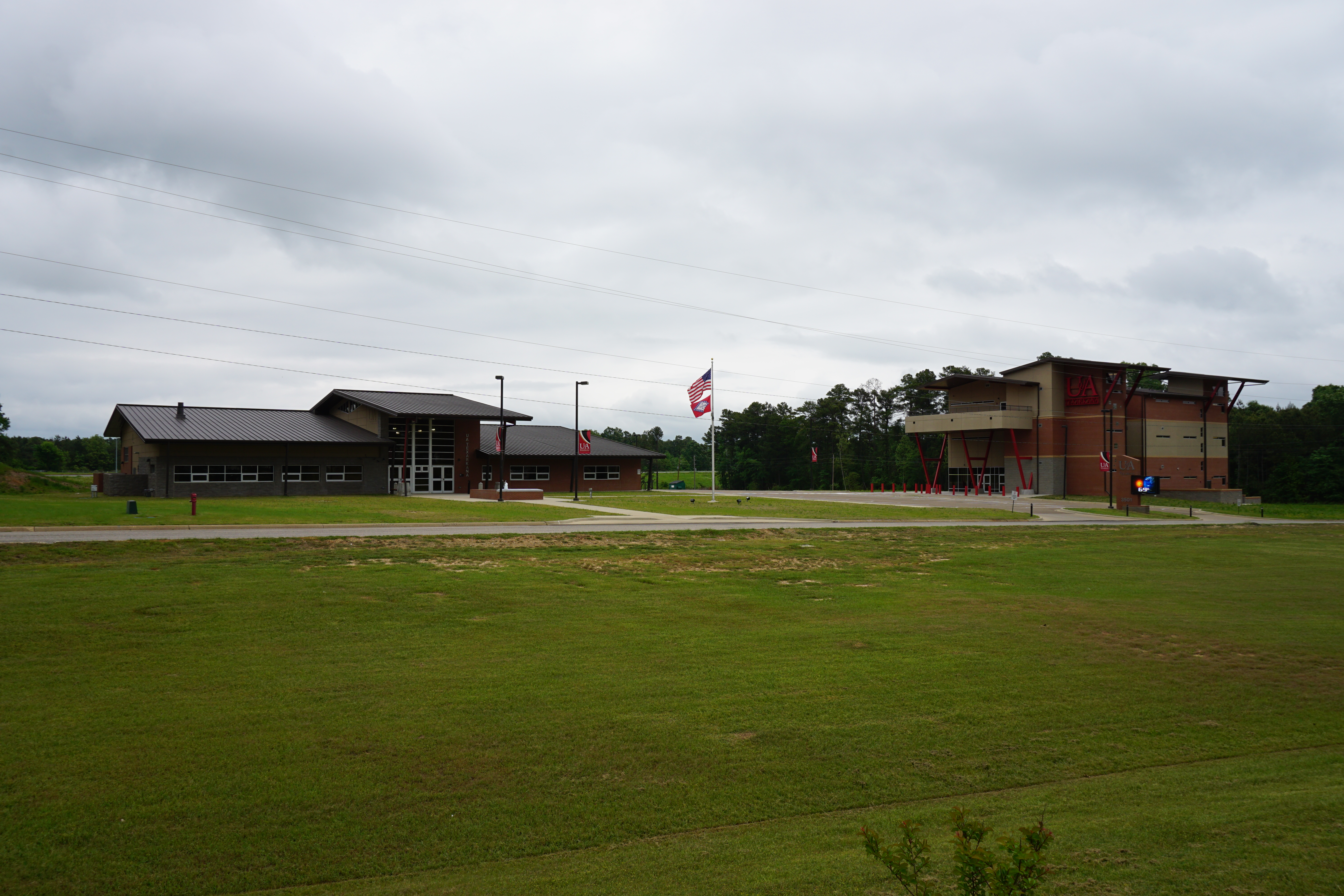 UACCH-Texarkana in Texarkana, Arkansas (United States).